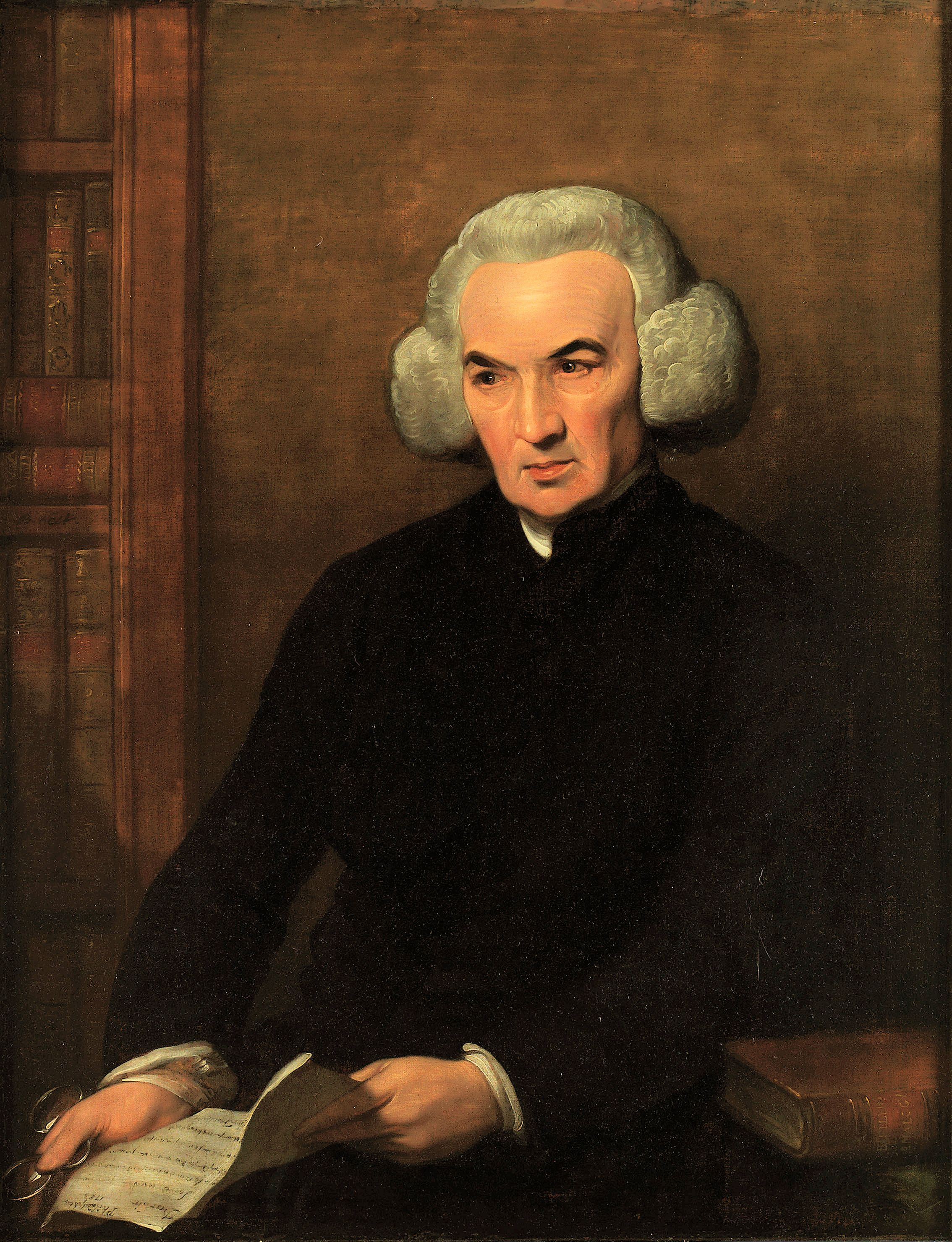 The sitter is shown is his study, reading a letter dated 1784 from Benjamin Franklin, a close friend of Price over many years.Price recorded sitting for the portrait in his short-hand journal. The journal is now in the collection of the Nationial Library (NLW MS 20721A). This portrait is the only official image of this highly important moral philosopher. There exist three versions: this present oil painting, a contemporary version now at the Royal Society and a 19th century copy in the Collection of the National Museum of Wales. The frame was specially commissioned using funds provided by the Friends of the Library. It is a Maretti, gilded frame in a style contemporary with the painting.